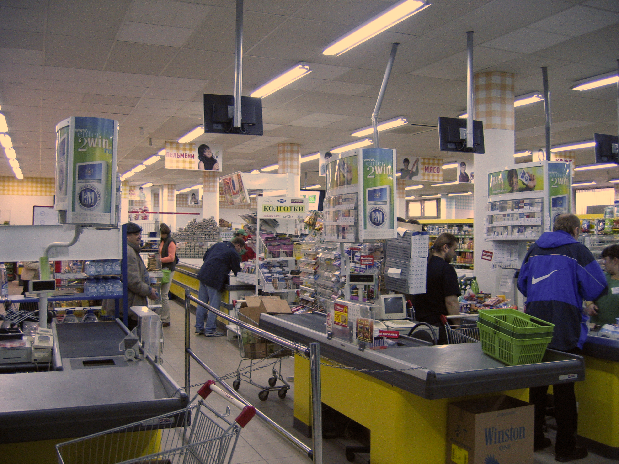 A Pyatyorochka supermarket in Moscow